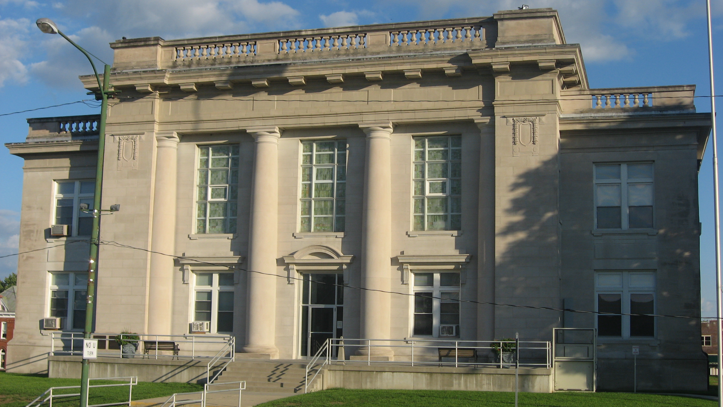 Northern side of the Clay County Courthouse, located on Courthouse Square in downtown Louisville, Illinois, United States. It was built in 1912.